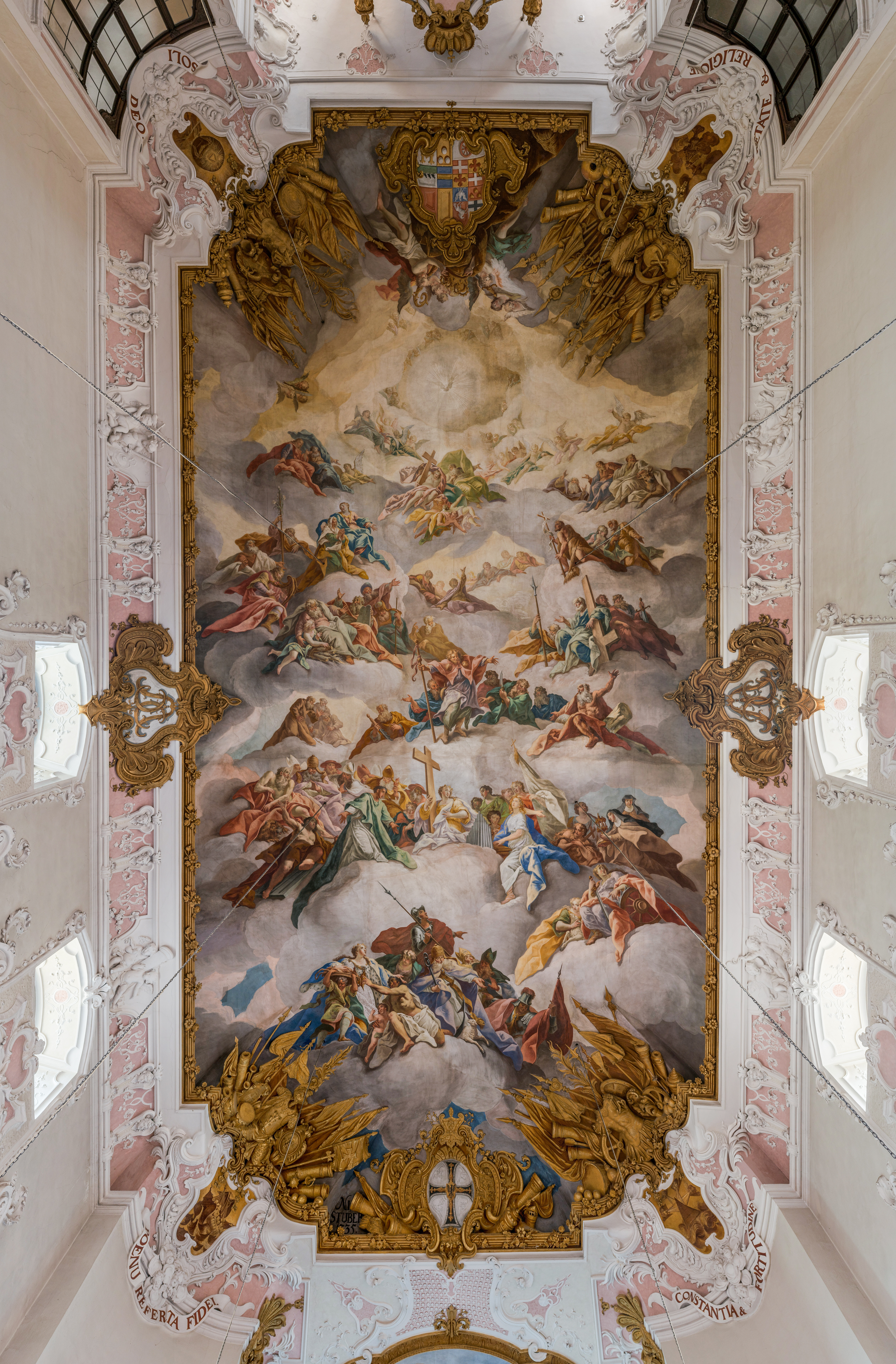 Schlosskirche, Bad Mergentheim, ceiling